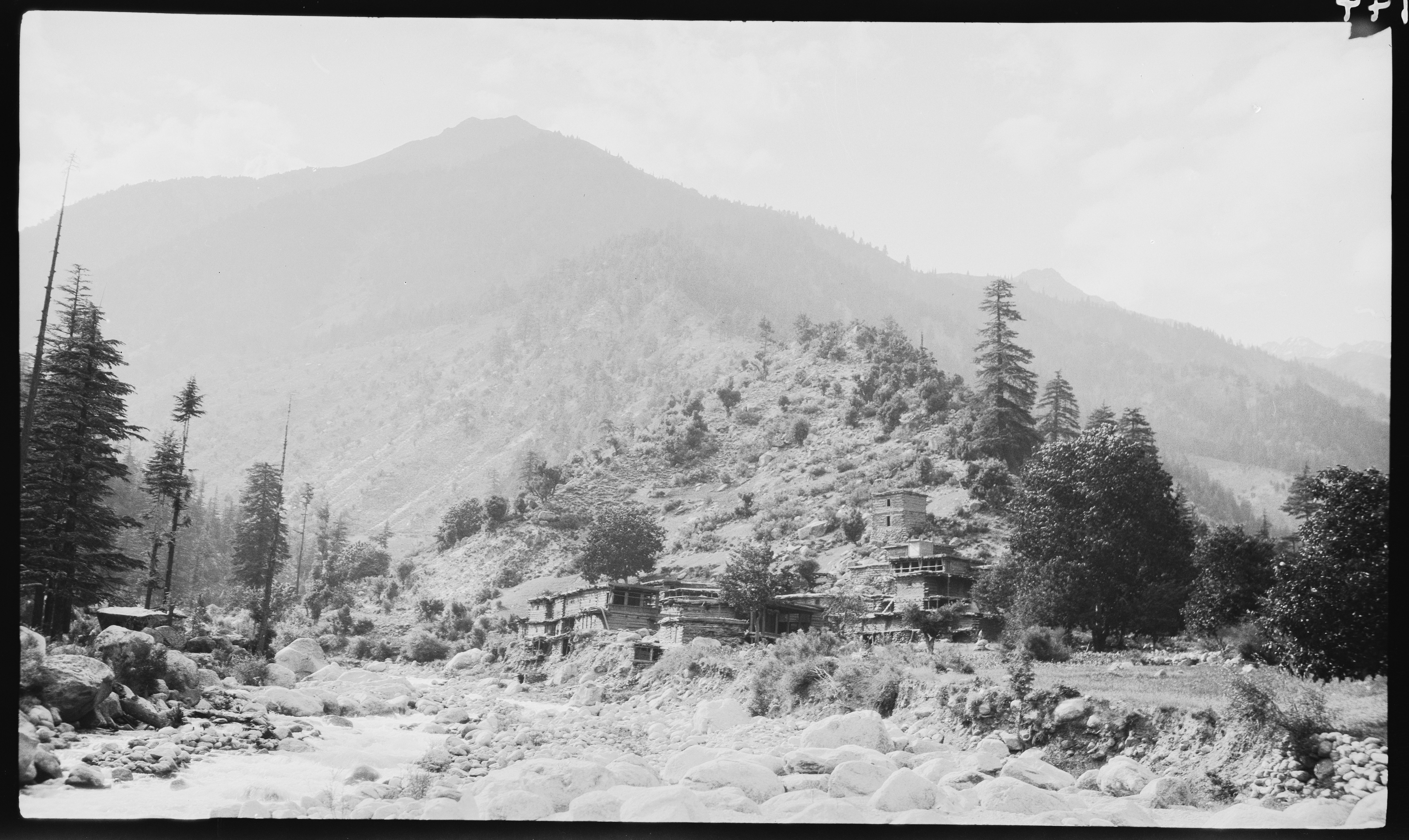 Kunisht (Rumbur Sheikhandeh), Rumbur Valley, Chitral, NWFP, Pakistan The Kati village of Kunisht, today Rumbur Shaikhanandeh in the Rumbur valley. The last Kafirs converted to Islam in the early 1930s.